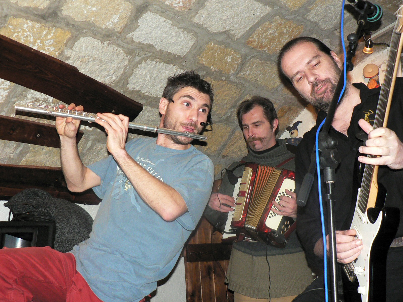 A Shannon.hu 2008-ban